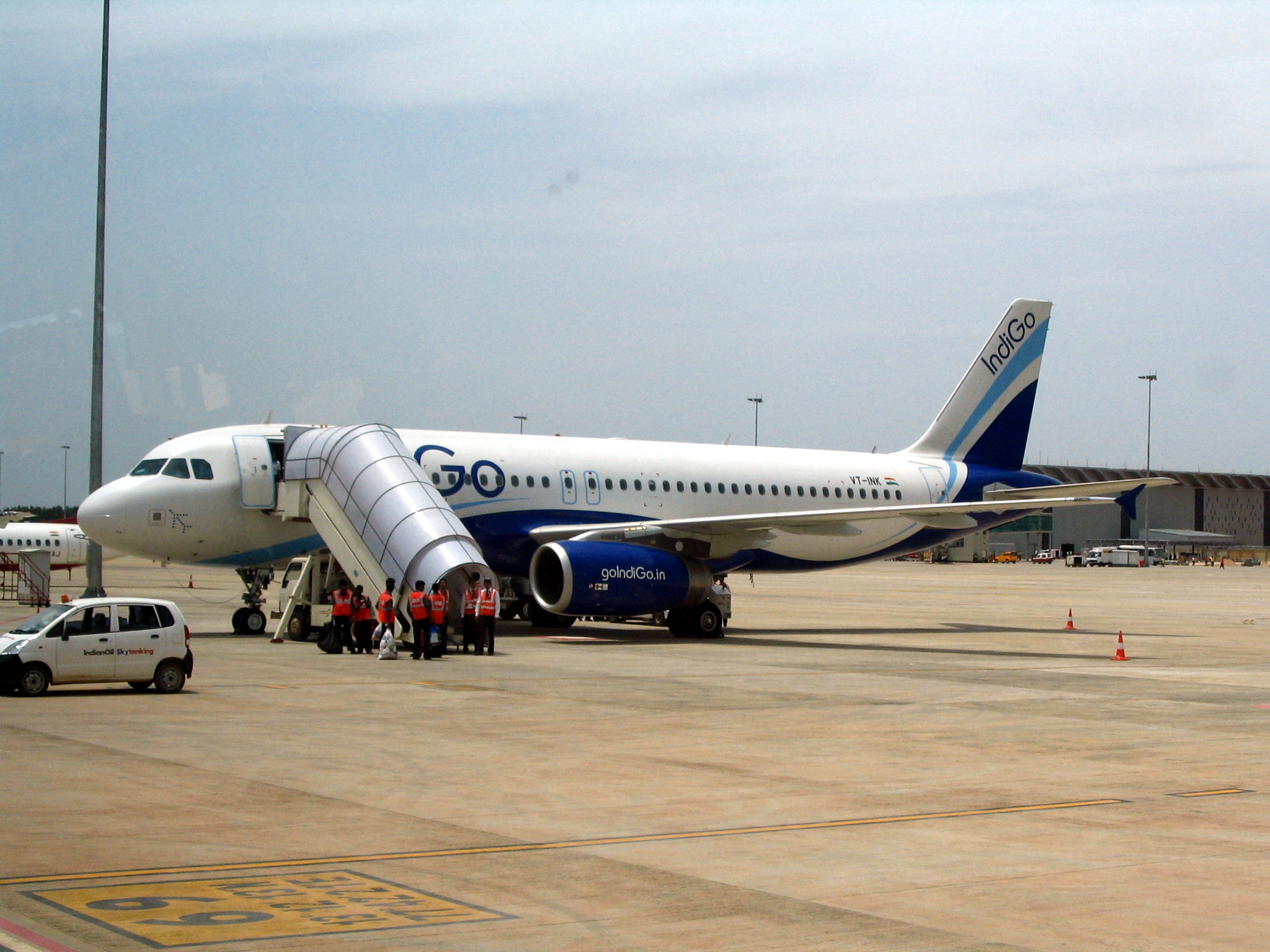 IndiGo aircraft at Bengaluru International Airport.